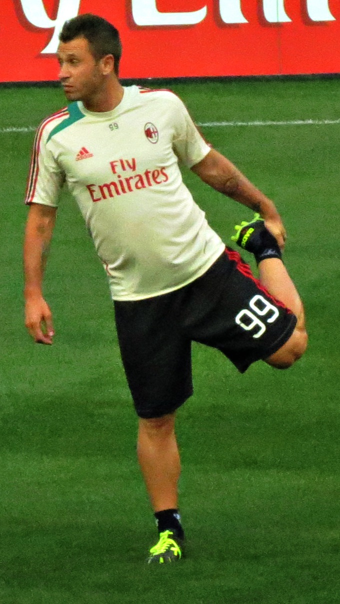 Antonio Cassano